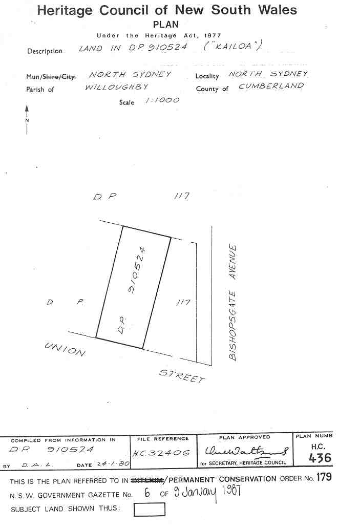 Kailoa: PCO Plan Number 179